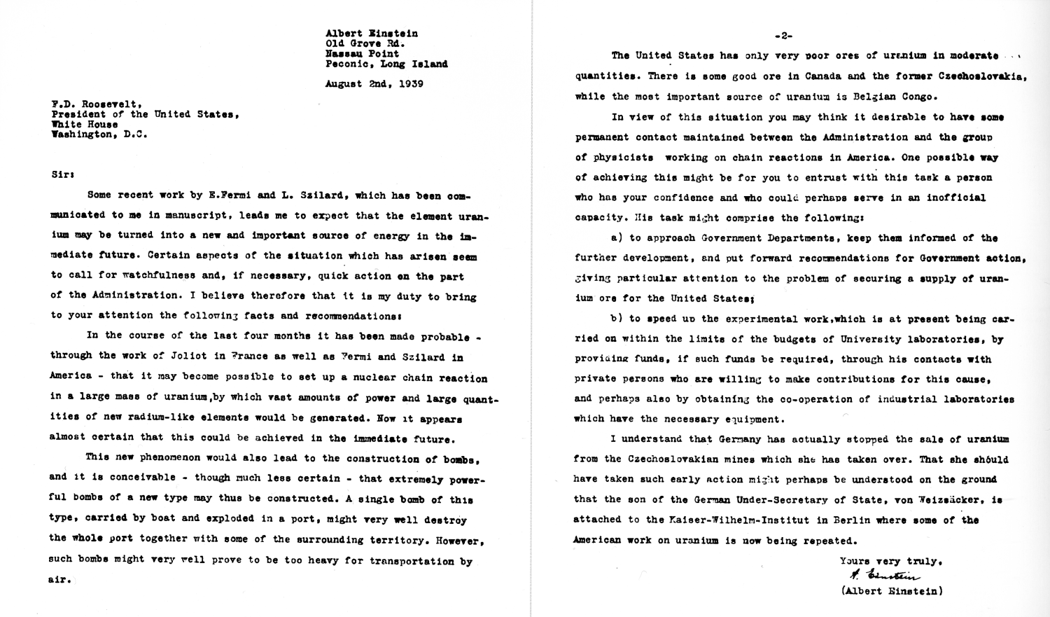 Scan of the letter sent to U.S. President Franklin D. Roosevelt on August 2, 1939, was signed by Albert Einstein but largely written by Hungarian physicist Leo Szilard. For more information on the letter and its context see its entry at the English Wikipedia.